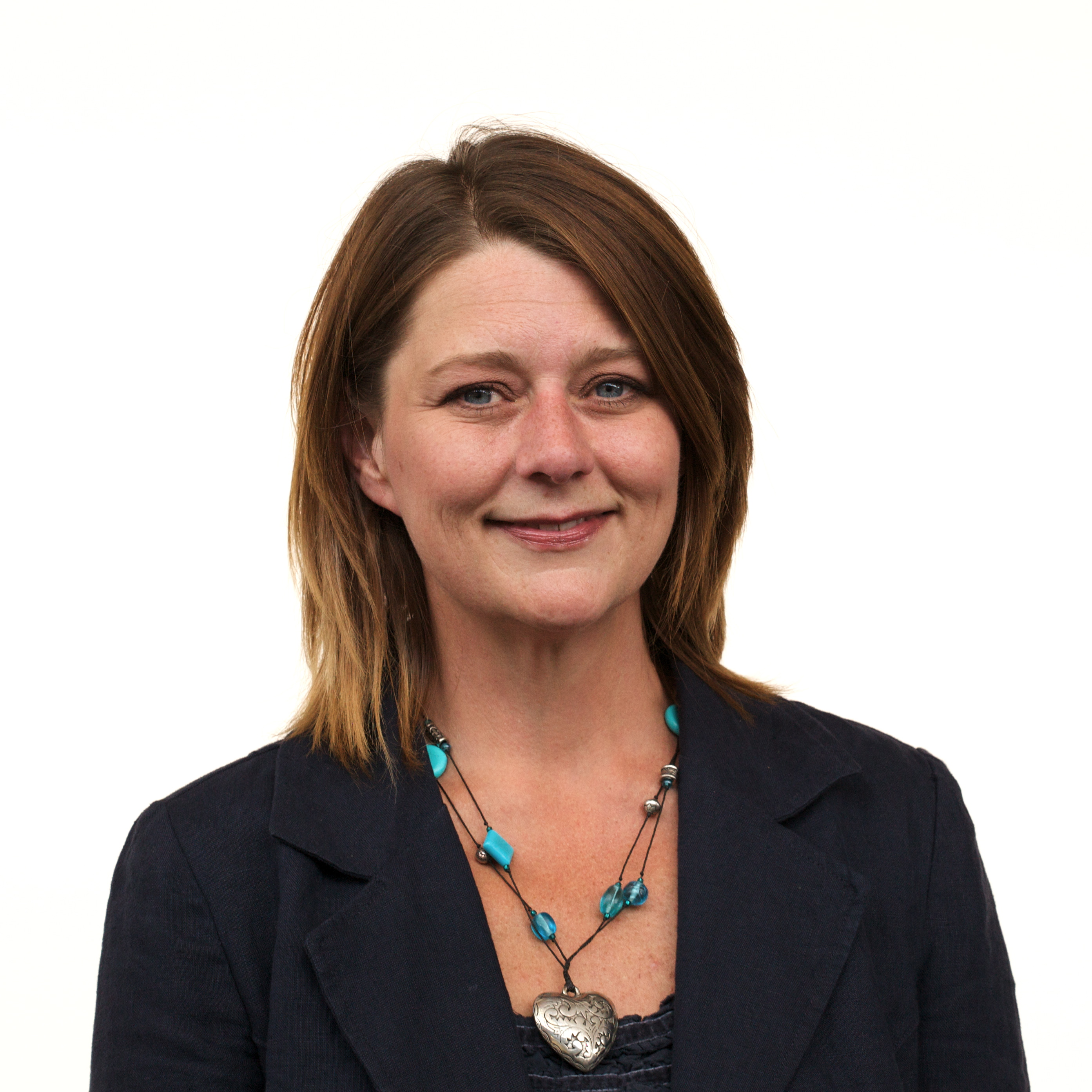 Leanne Wood AM, member of the National Assembly for Wales.